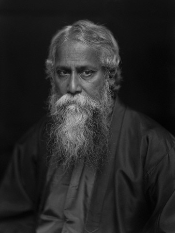 Portrait of Rabindranath Tagore